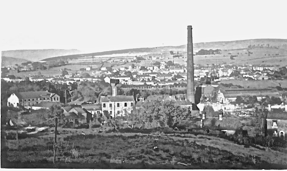 The Calico Printers Association mill originally had 2 chimneys, the last being demolished about 1965